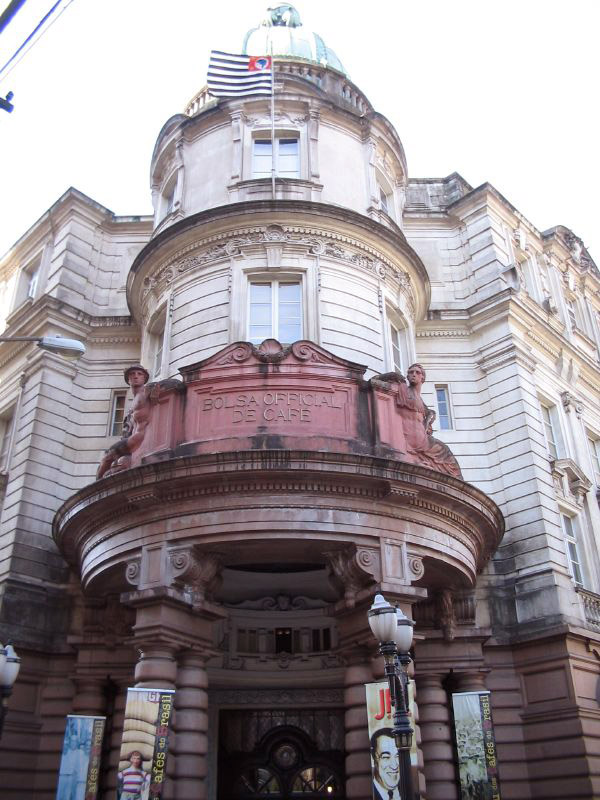 Bolsa do Café (Coffee Stock Exchange) in Santos, Brazil